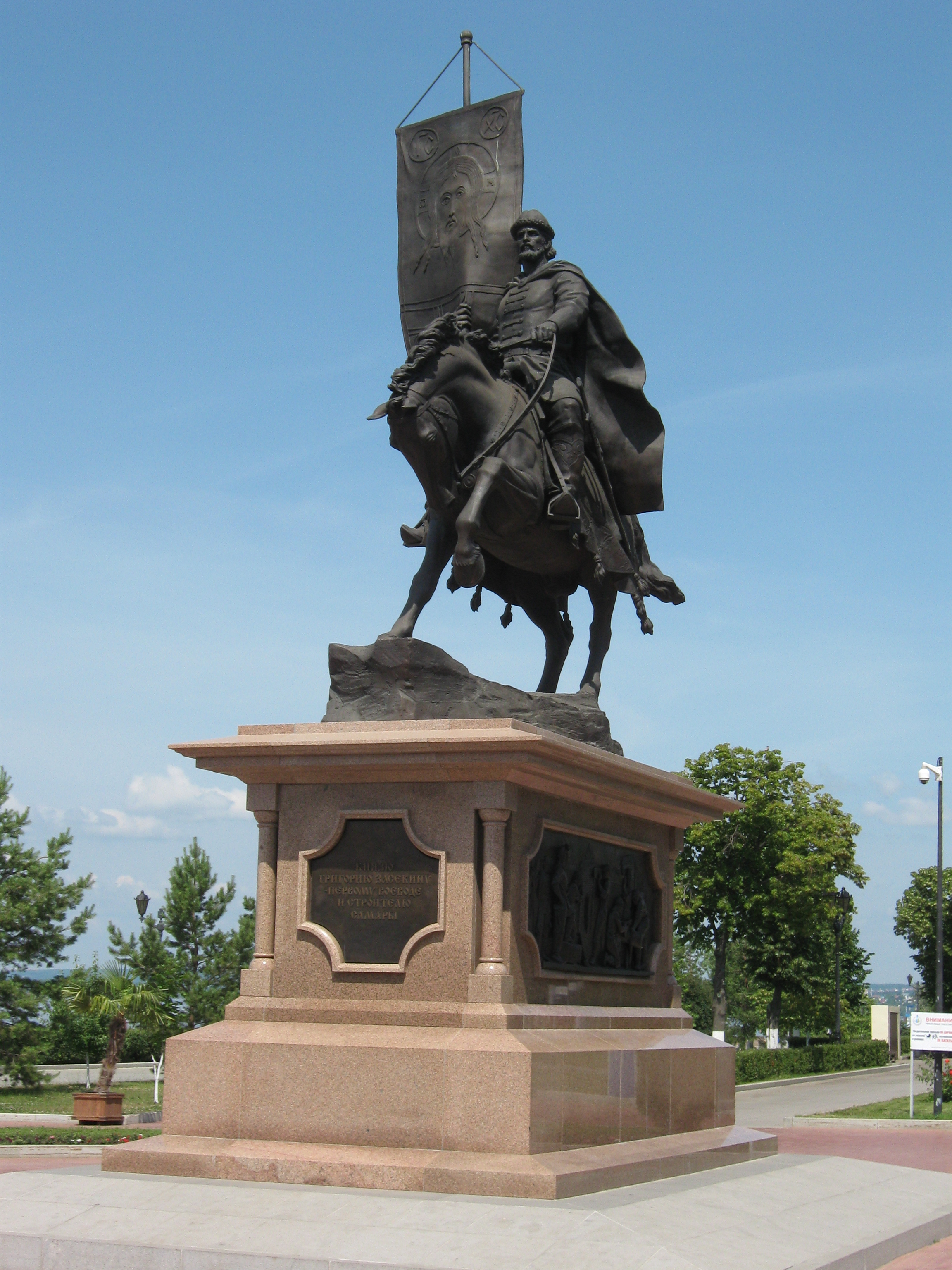 Monument to Grigory Zasekin (the founder of Samara) in Samara Russia.